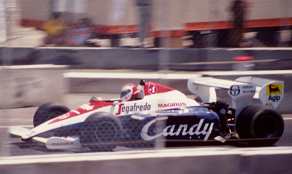 Johnny Cecotto, #20 Toleman-Hart. Cecotto spun out on Lap 25.